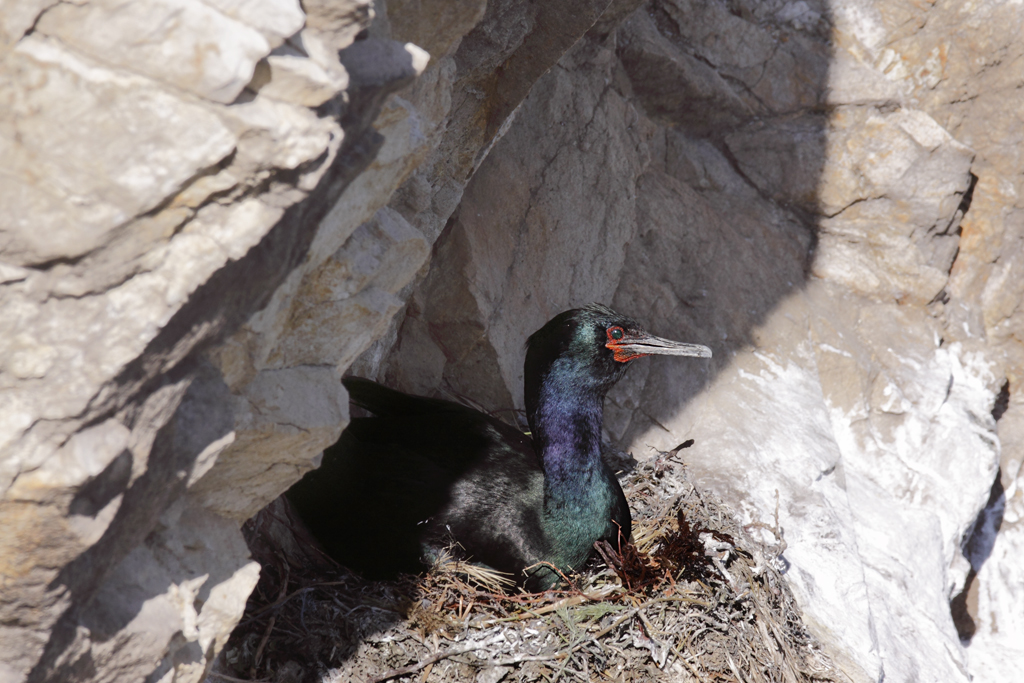 A Pelagic Cormorant on a nest in San Luis Obispo, California, USA. The small dark patch of seaweed at the front of the nest is a fresh delivery of nesting material made by this birds mate.